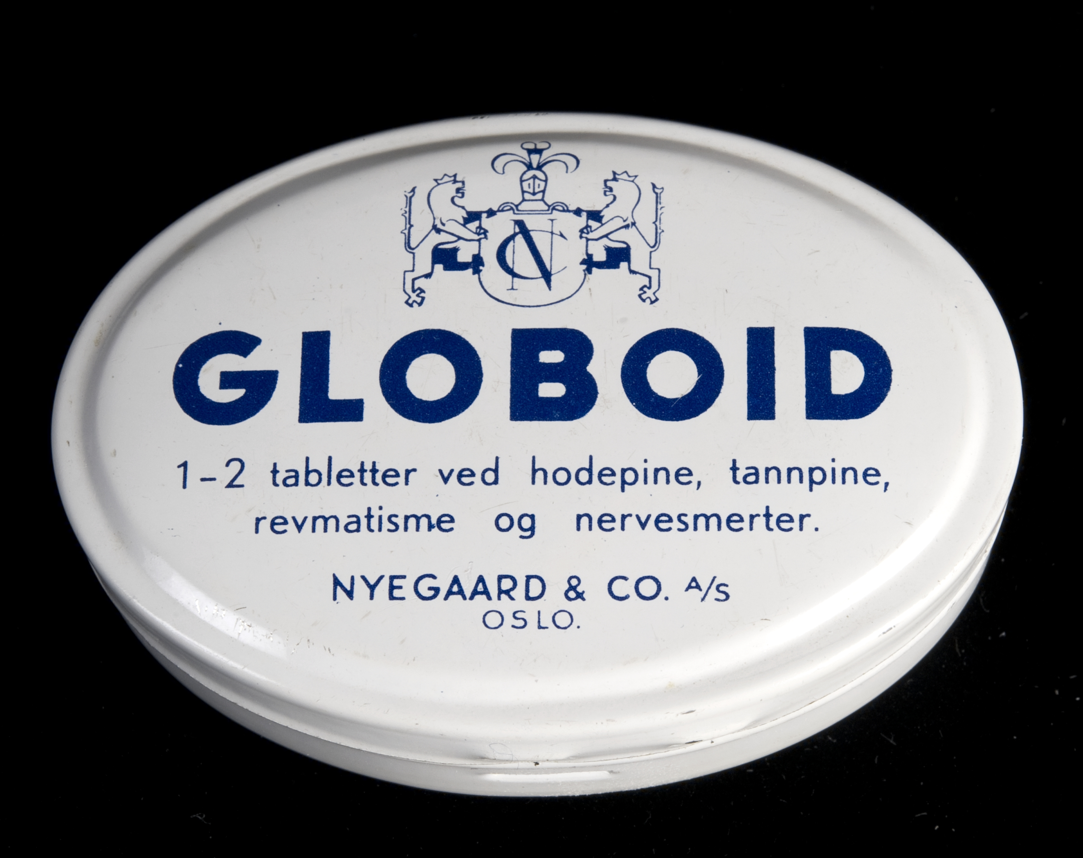 A box of Norwegian Globoid tablets